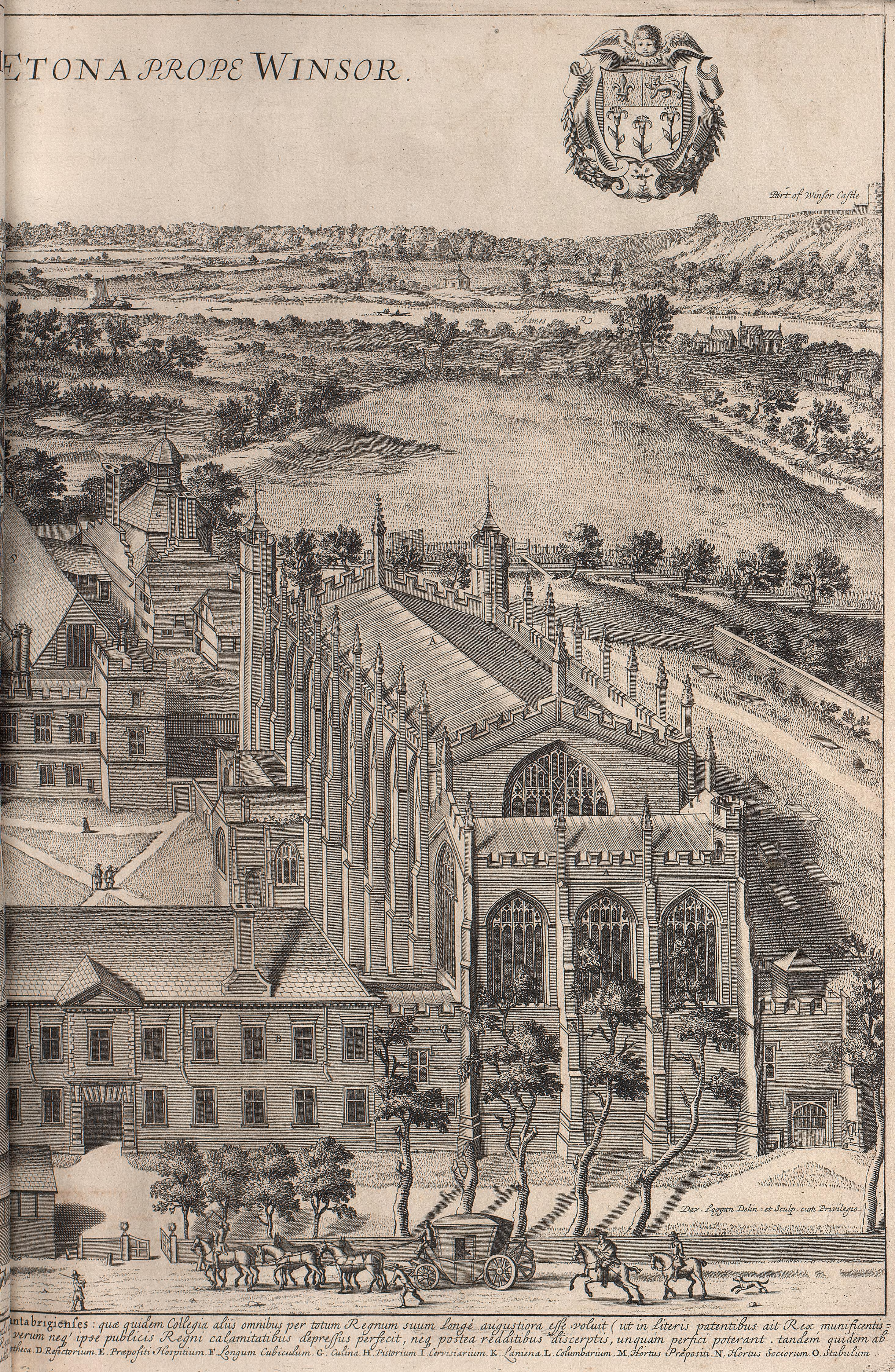 Bird's eye view of Eton College by David Loggan (right-hand page), published in his Cantabrigia Illustrata of 1690